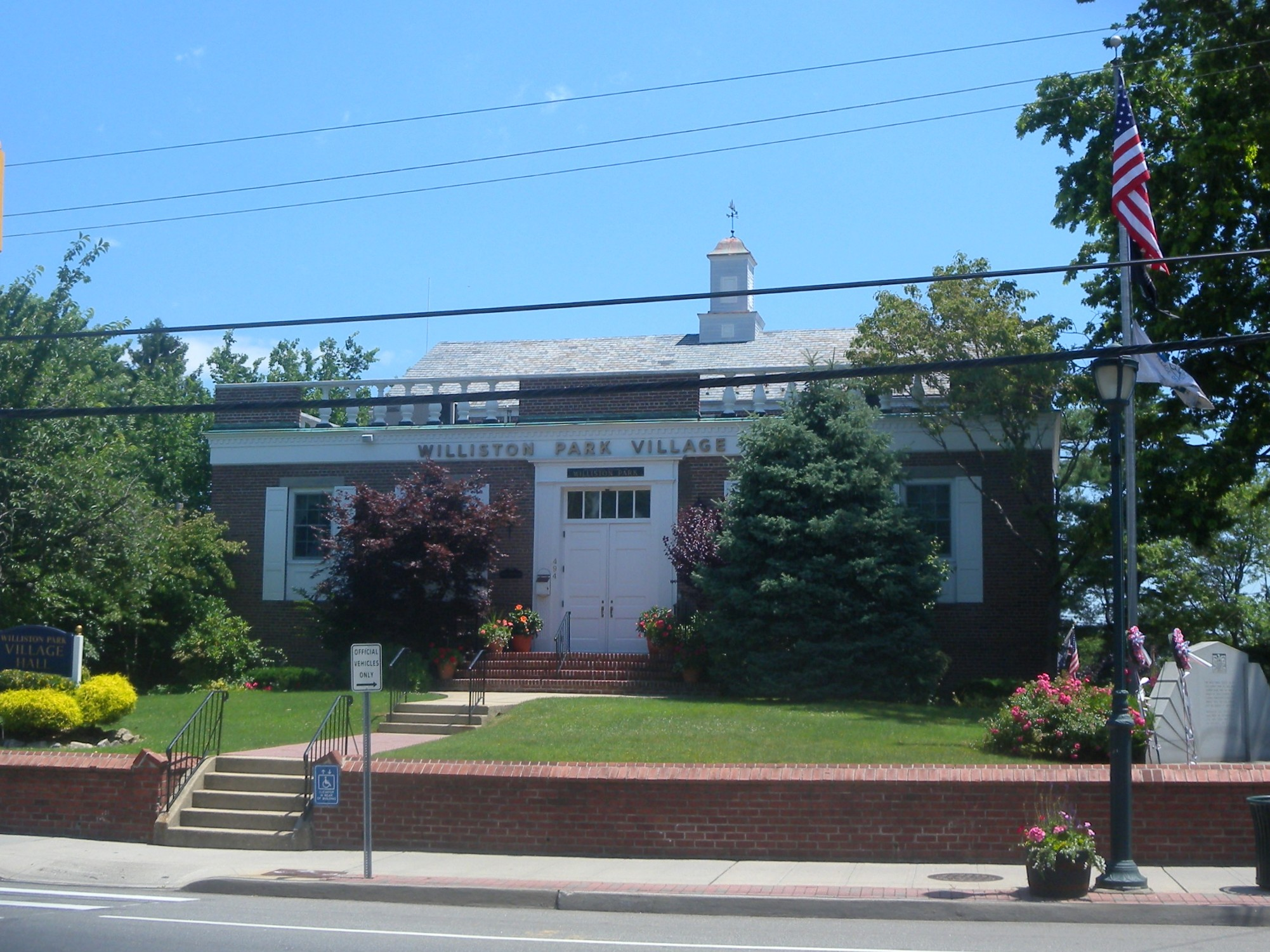 Looking east across Willis Avenue at Village Hall, on a sunny midday.